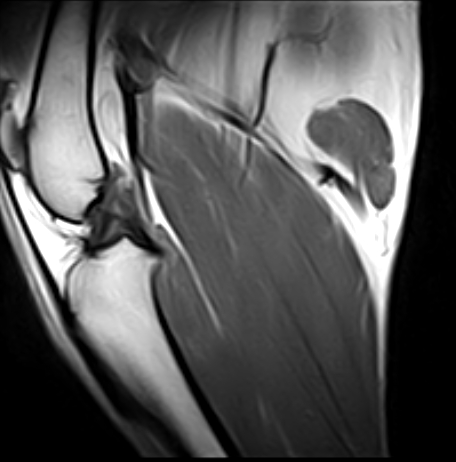 mri of a dogs knee